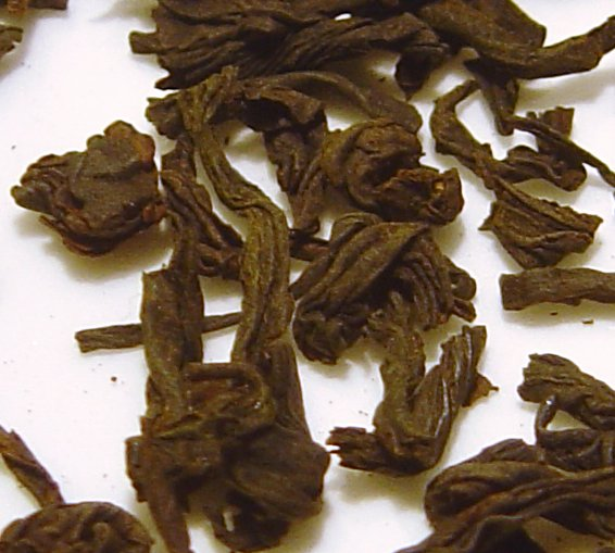 Lapsong souchong tea